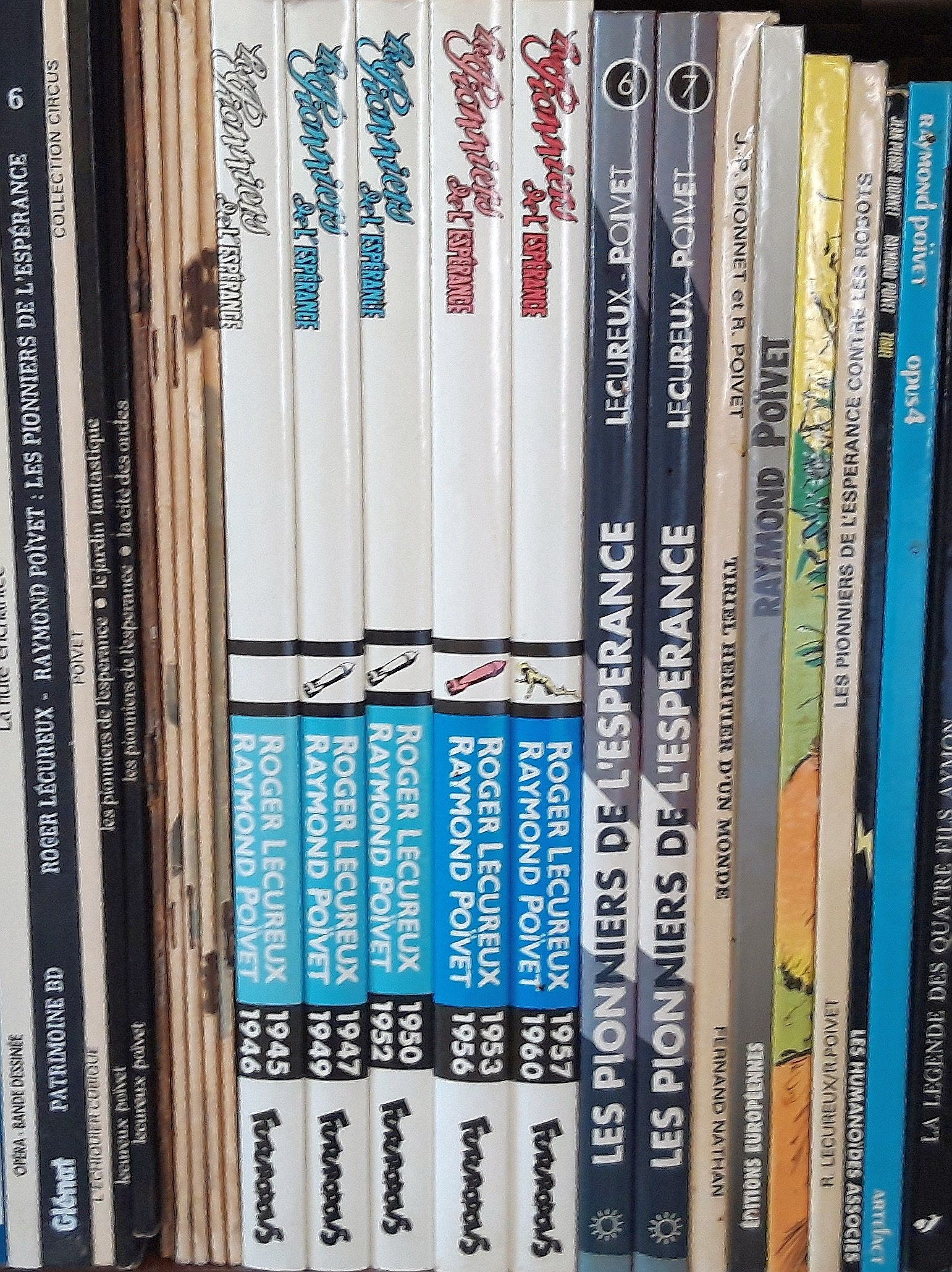 Pionniers de l'esperance books.